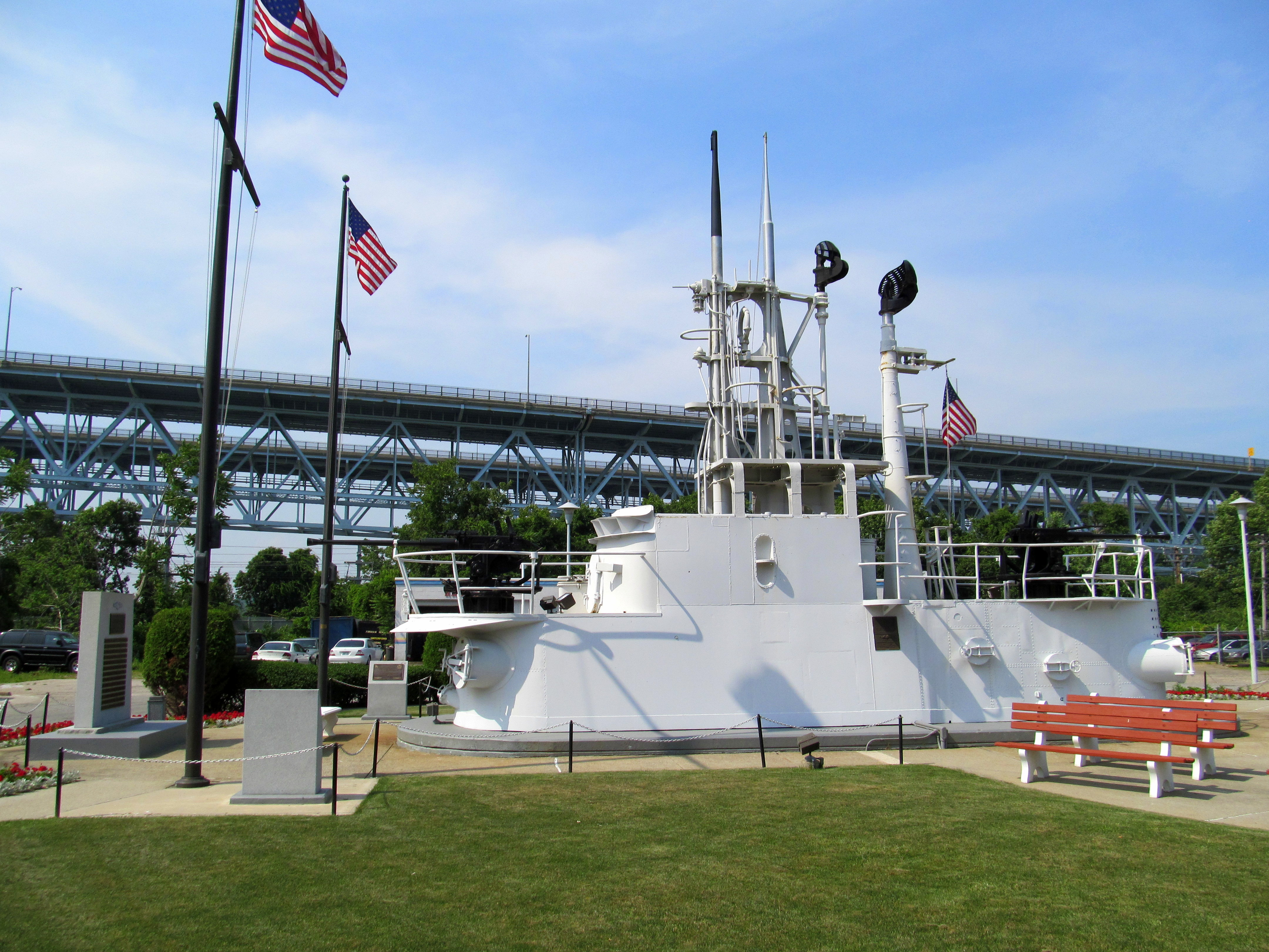 The conning tower of USS Flasher on display at the National Submarine Memorial in Groton, Connecticut